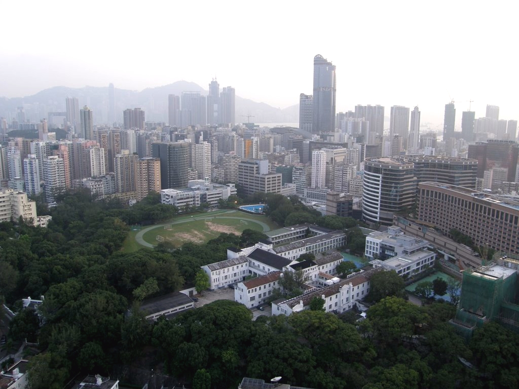 View of the Diocesan Boys' School campus (dead centre) from a nearby tall building